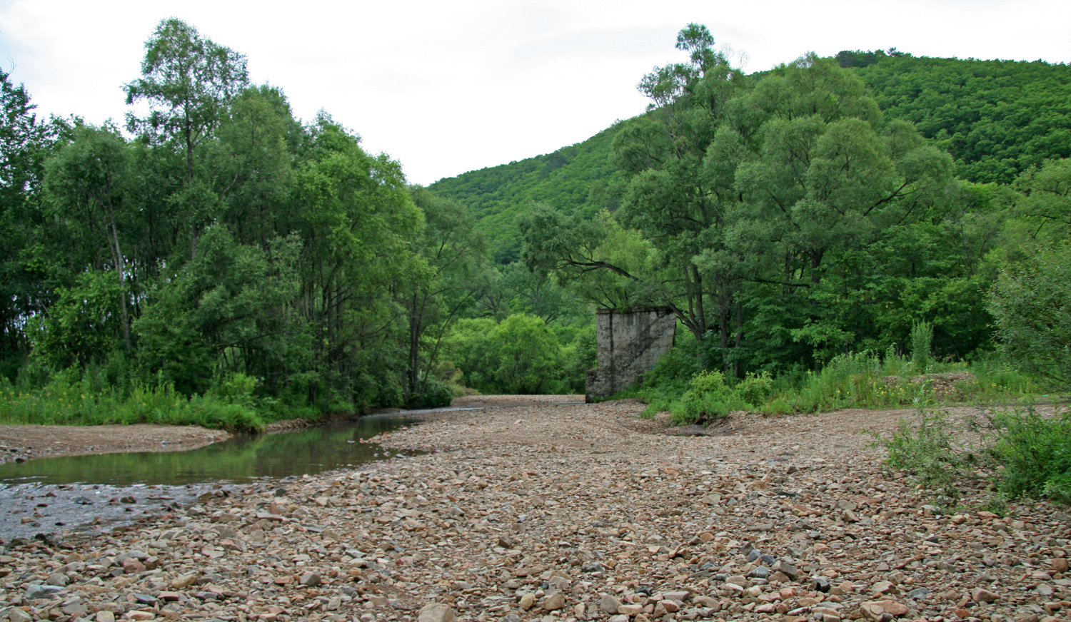 Studyonaya river. In background pillar of ruined bridge